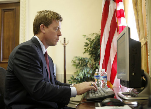 Hall of Fame football player Troy Aikman answered questions for "Ask the White House," Monday, March 24, 2008, after reading to children at the 2008 White House Easter Egg Roll.